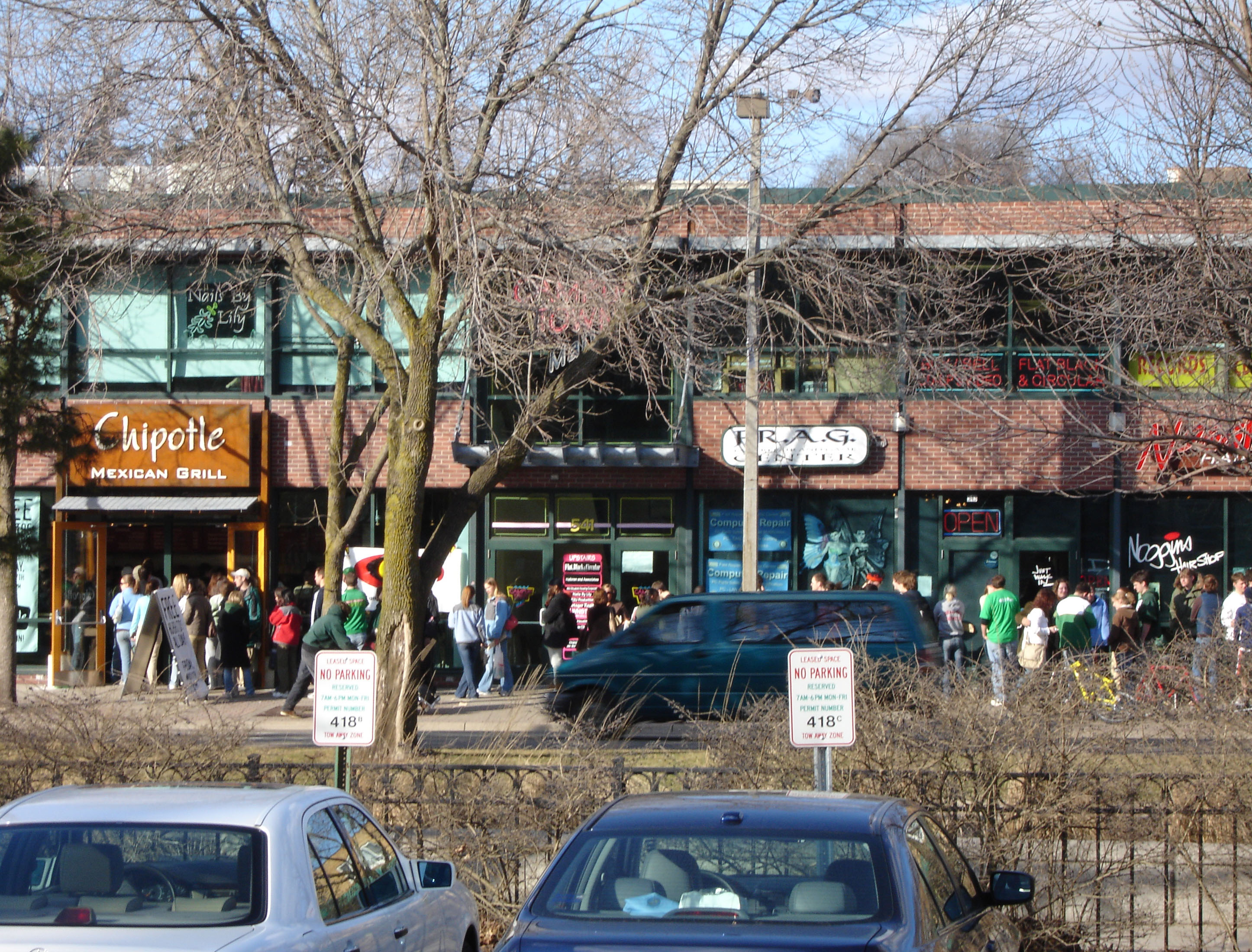 A free burrito day queue at a Chipotle Mexican Grill in East Lansing, Michigan.